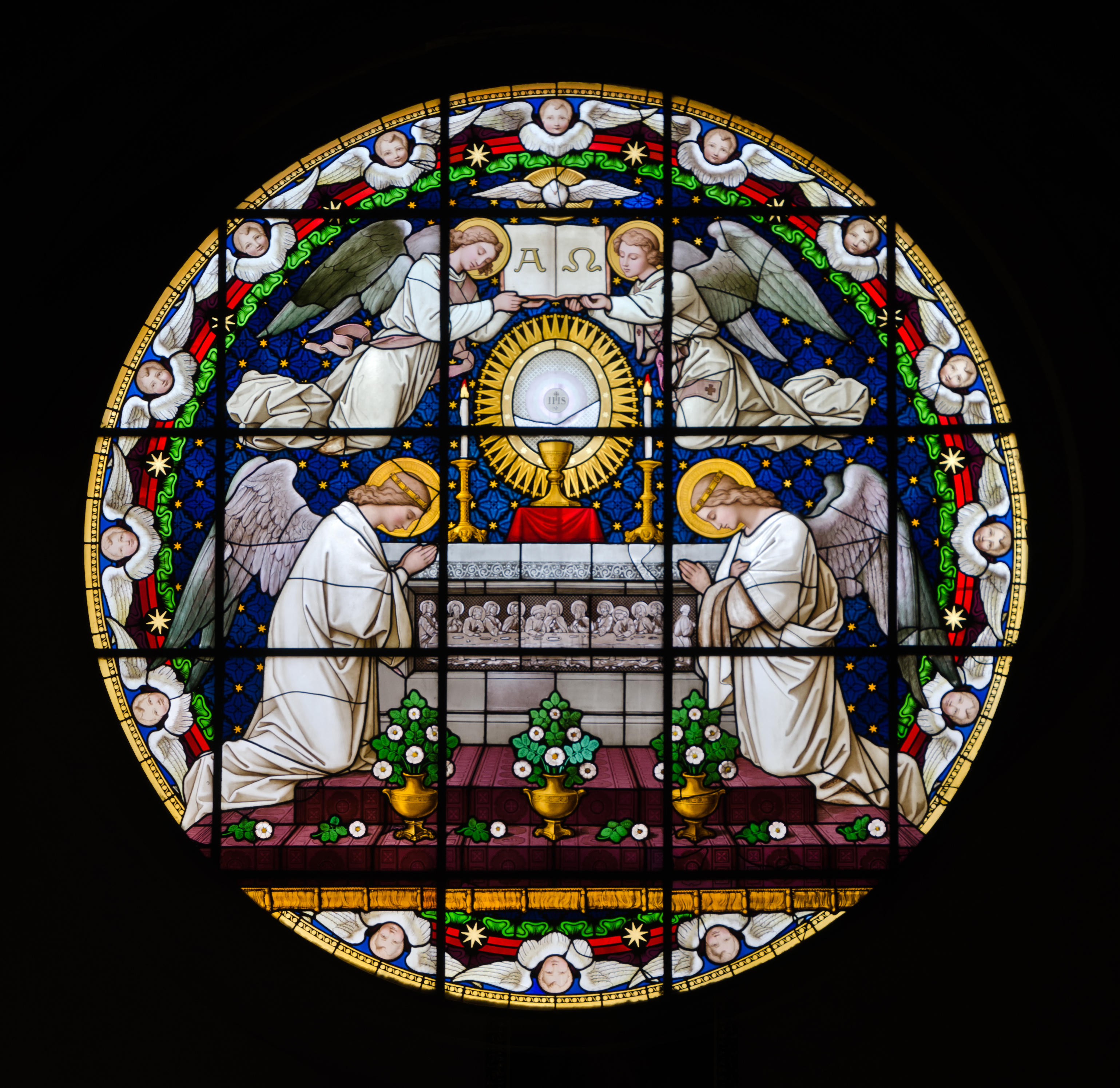 Stained glass windows in Saints James and Agnes Basilica in Nysa Ta fotografia przedstawia zabytek wpisany do rejestru zabytków pod numerem ID 611430